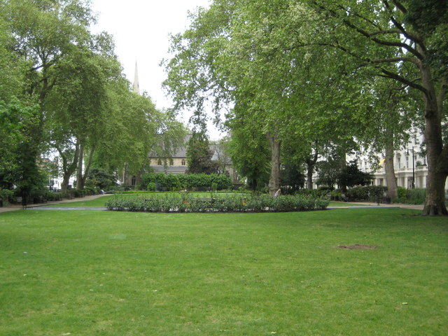 Gardens in St George's Square and St Saviour's Church in the same square, beyond.